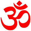 om symbol